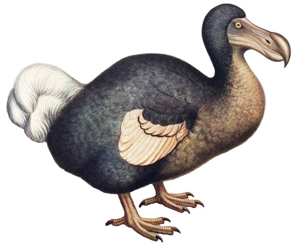 Didus cucullatus from Rothschild's Extinct birds